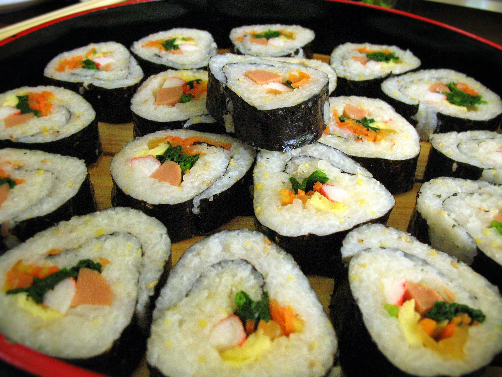 Kimbap